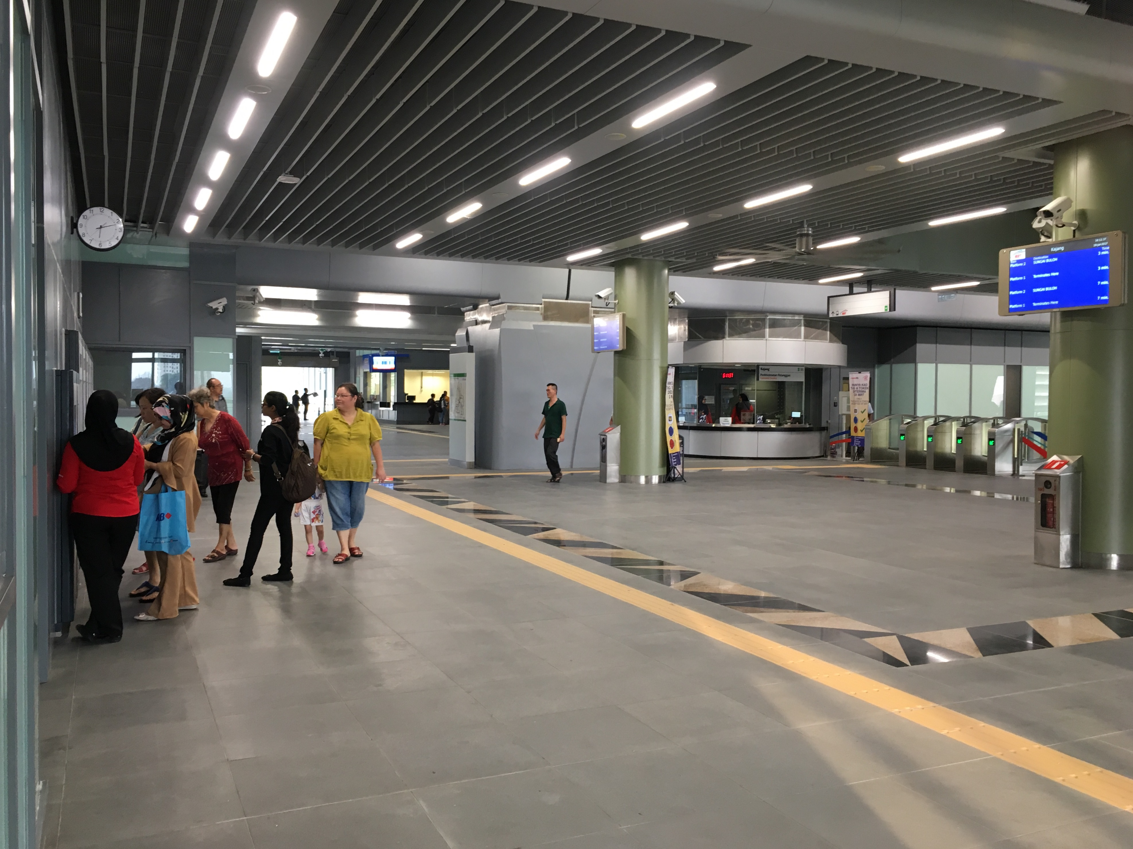 KTM and MRT common concourse of the Kajang Station with the access to the MRT at right.